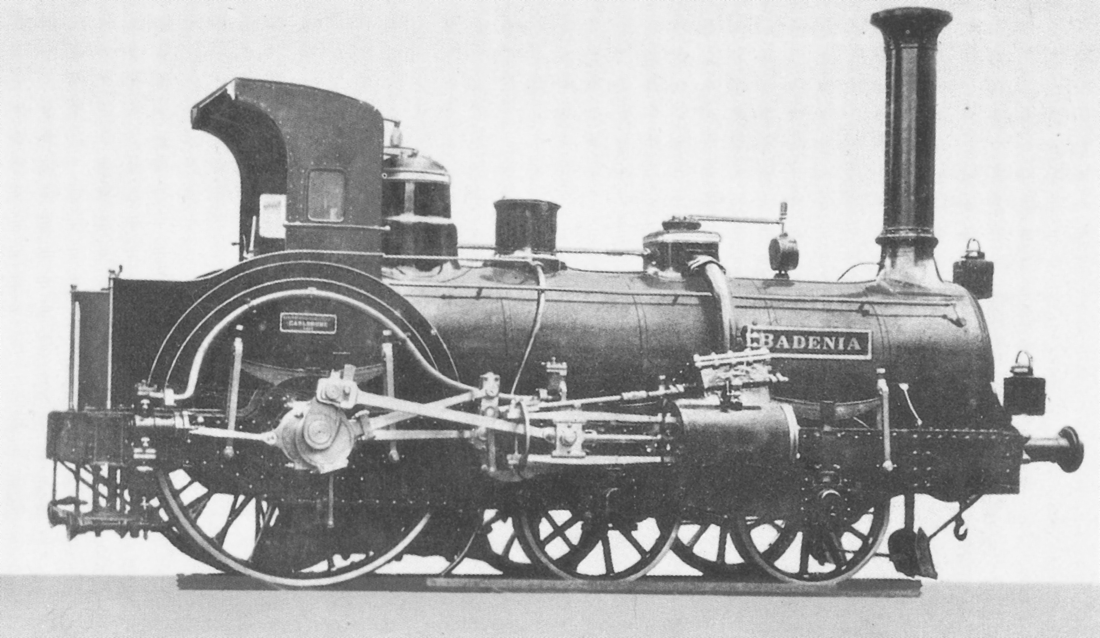 Steam locomotive Badenian IX.